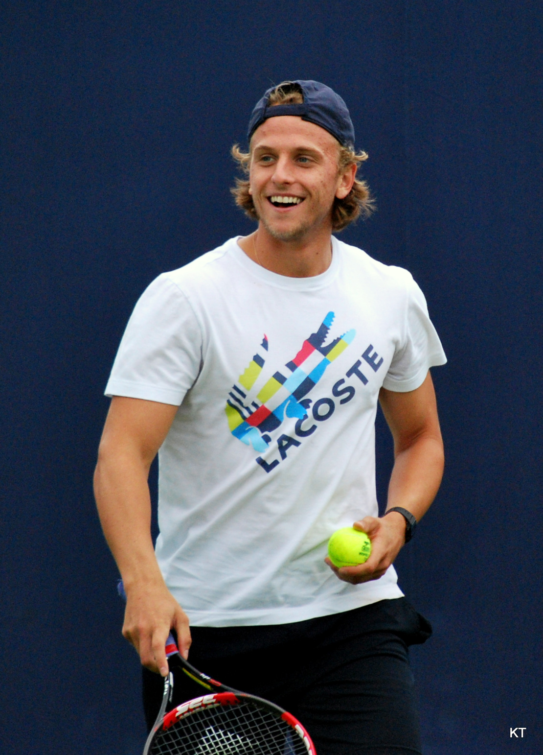 Hitting with the Bryans. Day 2 of the Aegon Championships, Queens Club 2012.